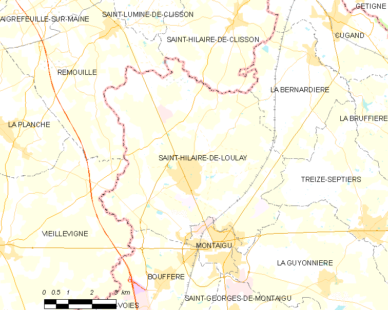 Map of French municipality Saint-Hilaire-de-Loulay